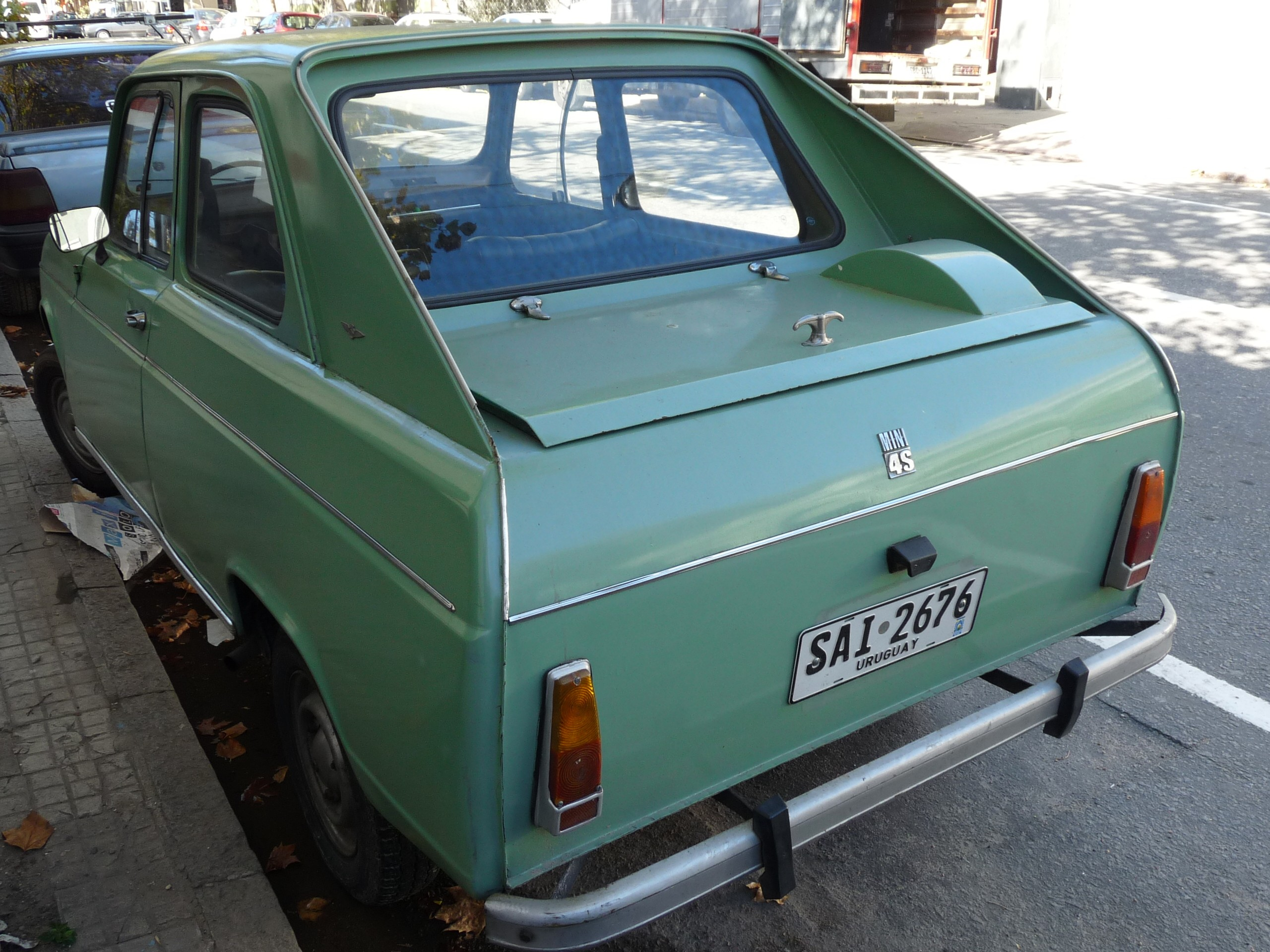 Renault Mini 4S (1971)